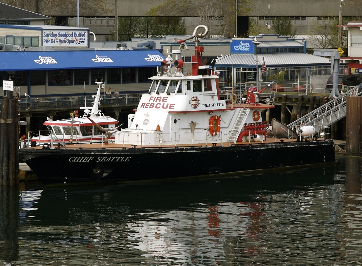 Chief Seattle - Fire Boat, Seattle, Washington